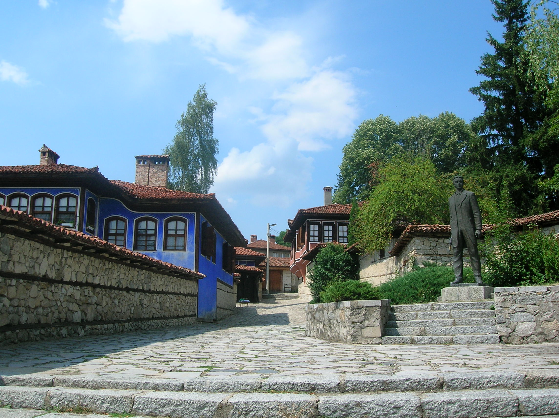 Kableshkov square, in Koprivshtitsa (Bulgaria). We can see a statue of tatue of Todor Kableshkov on the right and Kableshkov House on the back.